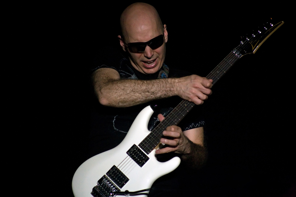 Joe Satriani in concert, Rijnhal, Arnhem (12/06/2008)